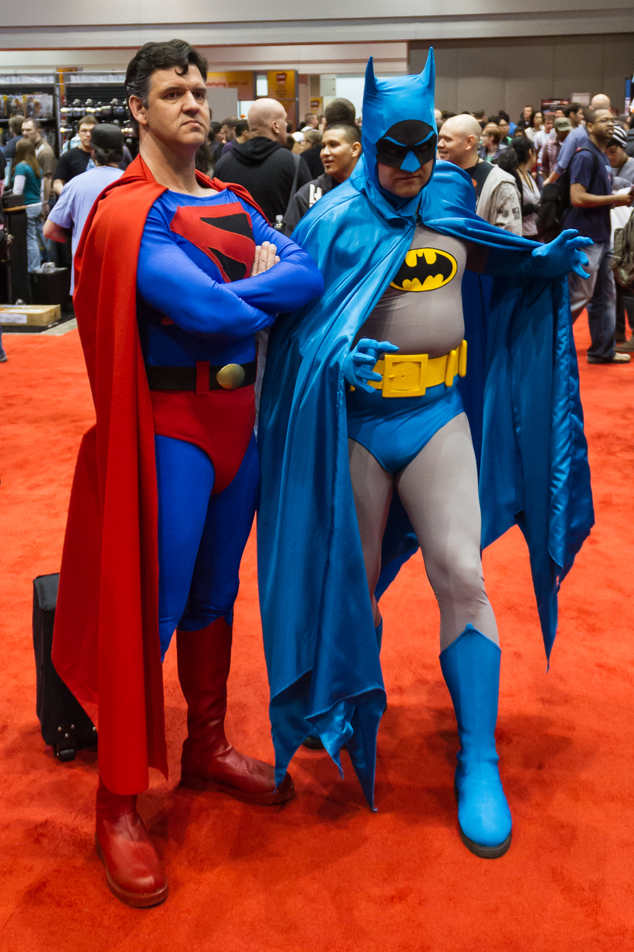 Superman (Greg Carlson) and Batman (John "The Flatulent Man" Whitt) Cosplay at Chicago Comic & Entertainment Expo; (C2E2) 2012